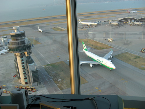 The view from the Air Traffic Control (ATC) tower in Hong Kong